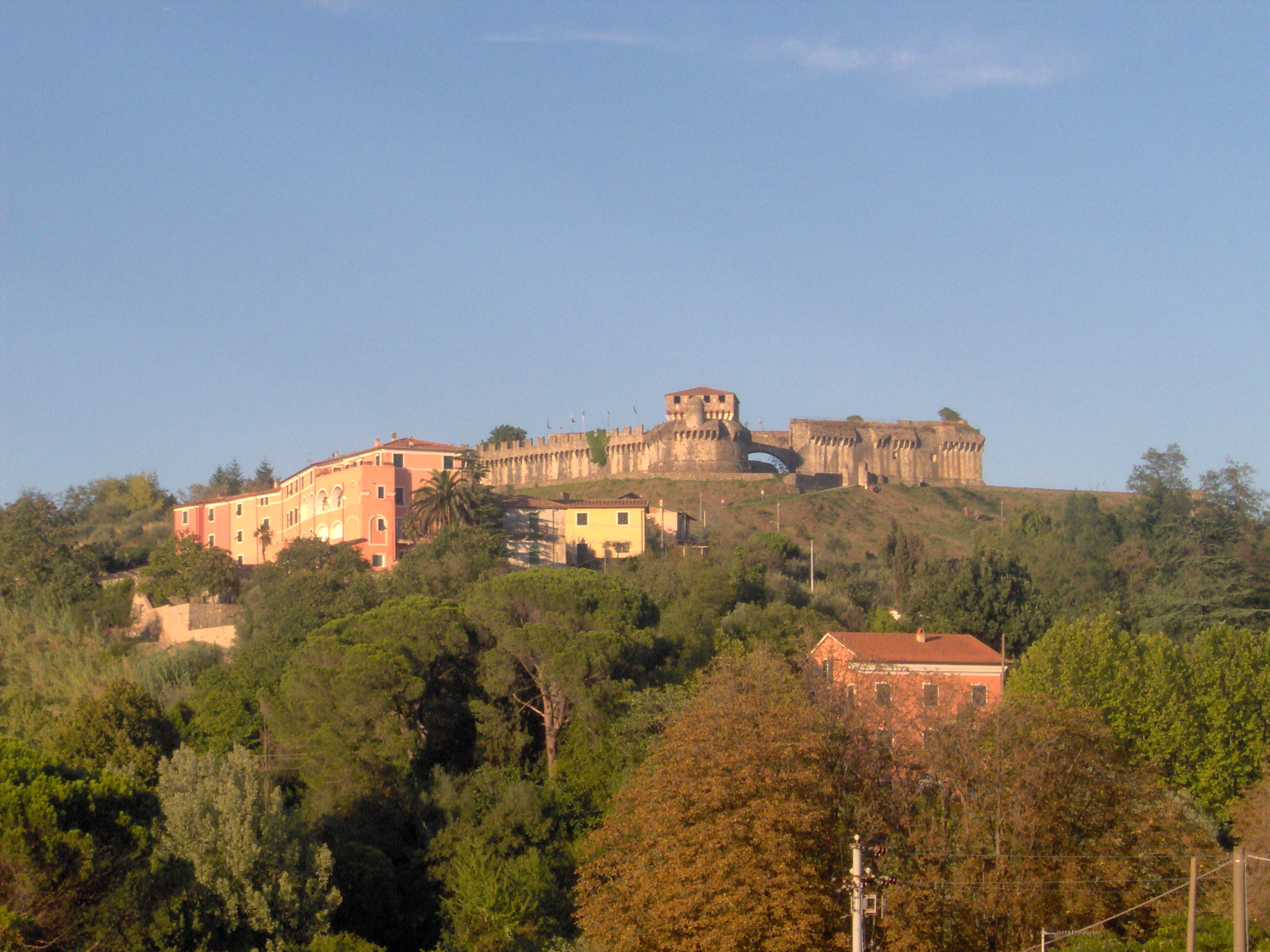 Citadella in the historic part of the town of Sarzana, Liguria, Italy